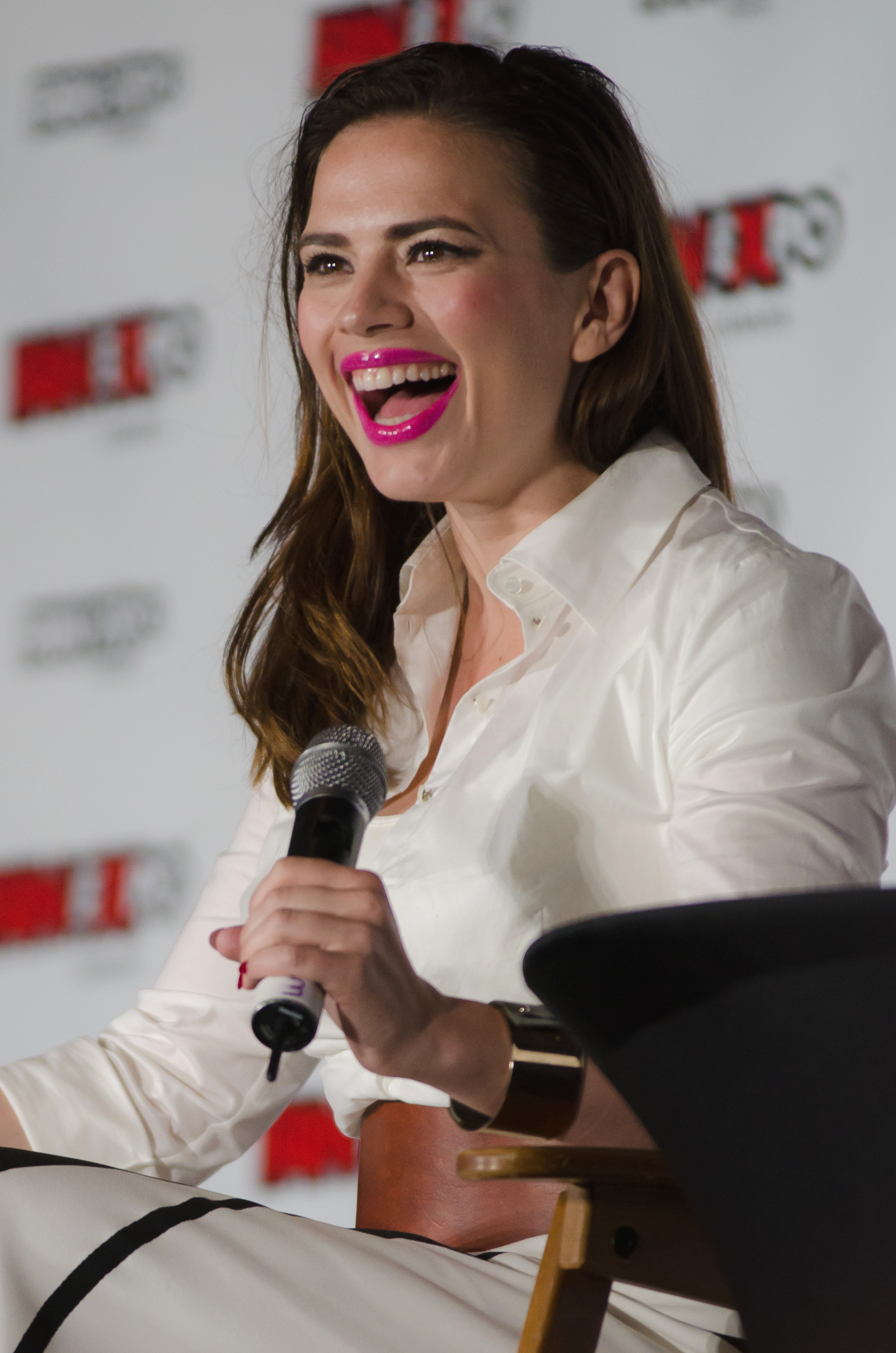 Hayley Atwell Q&A panel at 2015 Fan Expo Canada in Toronto in 2015